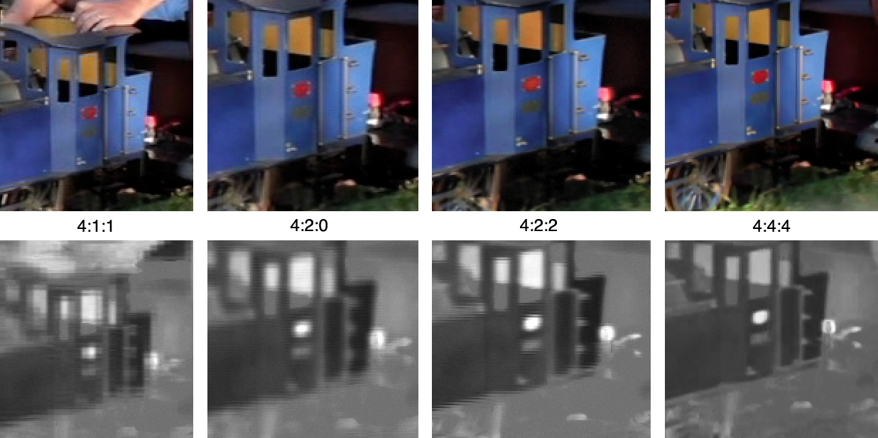 This image shows the difference between four subsampling schemes. Note how similar the color images appear. The lower row shows the resolution of the color information. All four images are from the same High Definition 1920x1080 pixel video frame, reduced to Standard Definition using different codecs. The 4:1:1 image is slightly smaller, since the coded image is in NTSC resolution, 720x480. The others are from PAL resolution images, 720x576. Excerpts enlarged to 200% here, when viewed in full size. (Note that pixel aspect ratios are different in NTSC and PAL, thus both can have 720 pixels per line, and still be 4:3).